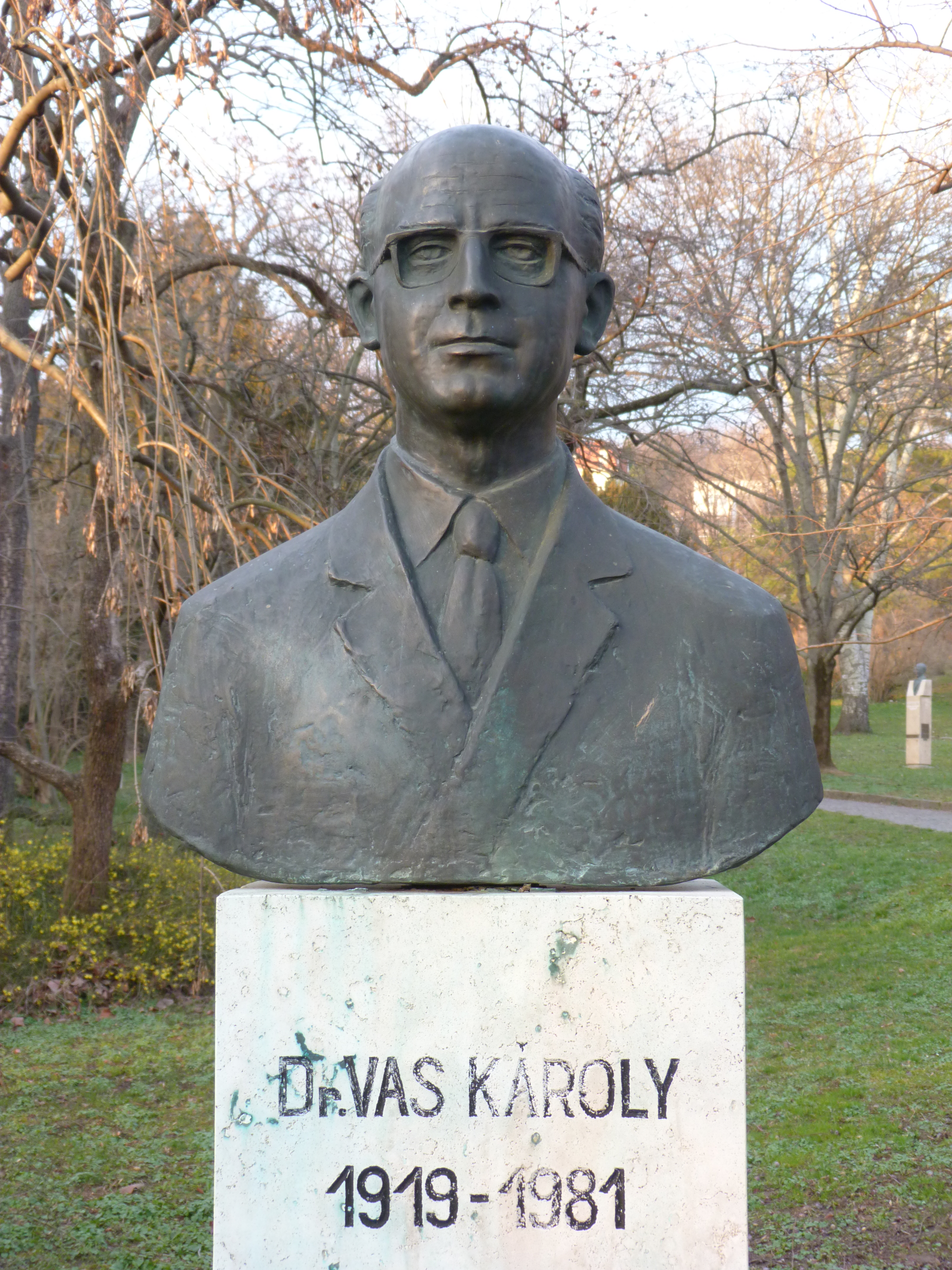 Taken on the 27th of February, 2016. Budai Arborétum, Budapest, Hungary.